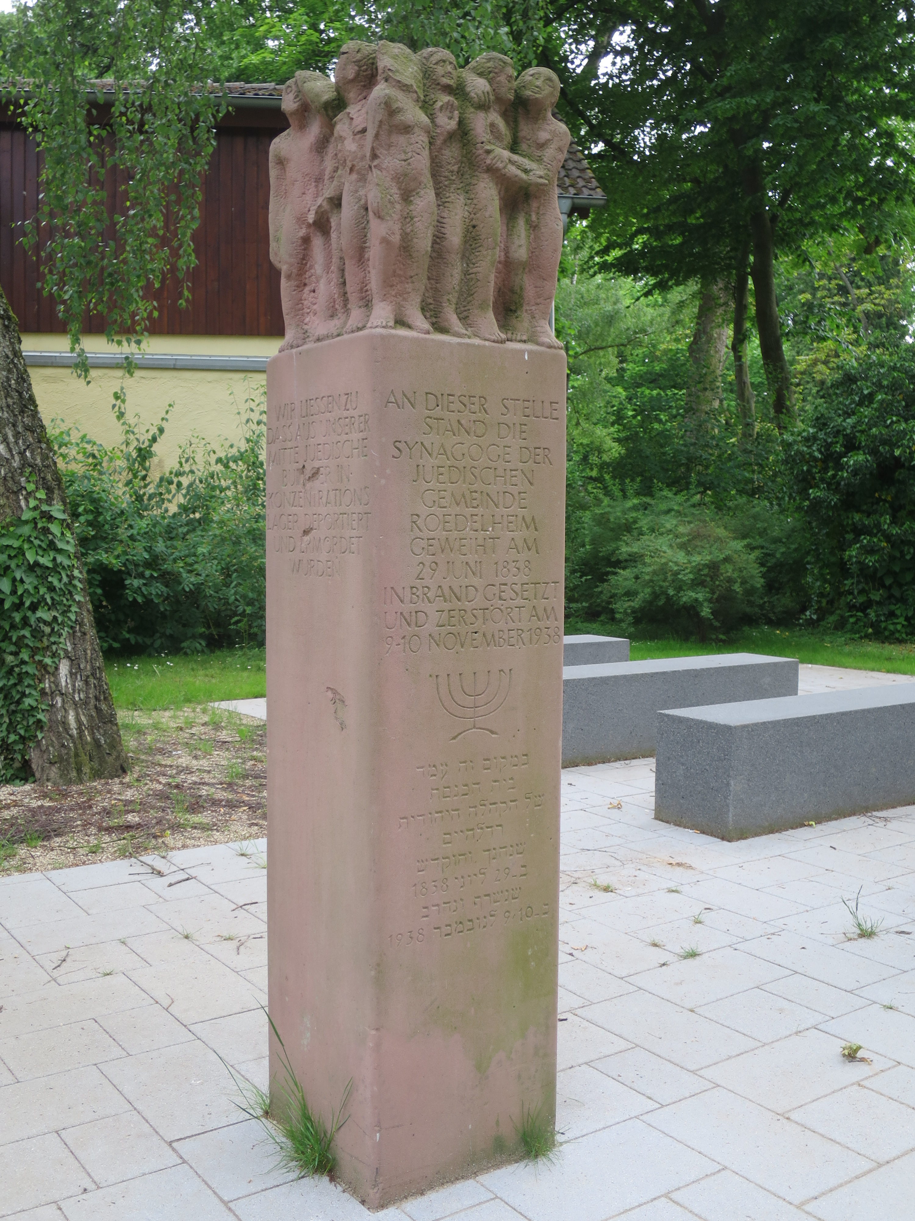 Memorial for the former synagogue at Frankfurt-Rödelheim (Sculpture by Christof Krause)